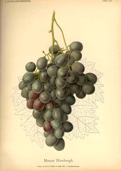 Page from Handbuch der Tafeltraubenkultur, by Rudolf Goethe & Wilhelm Lauche Published: Berlin, Paul Parey, 1895 Grape variety: "Muscat Hamburgh"